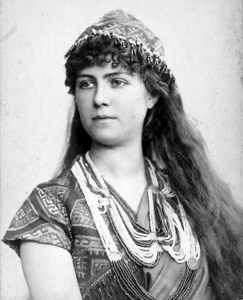 Marie van Zandt. Per this Gallica image, this is her as Lakmé, and from 1883.